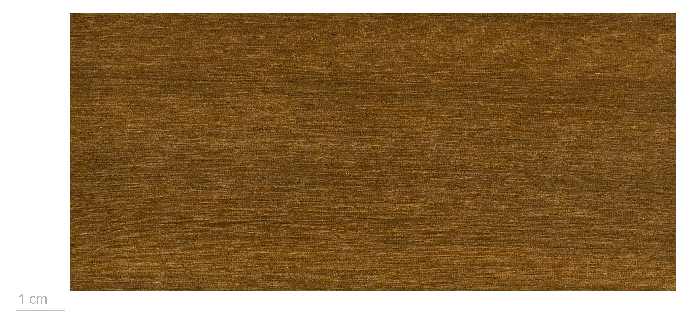 ? , wood